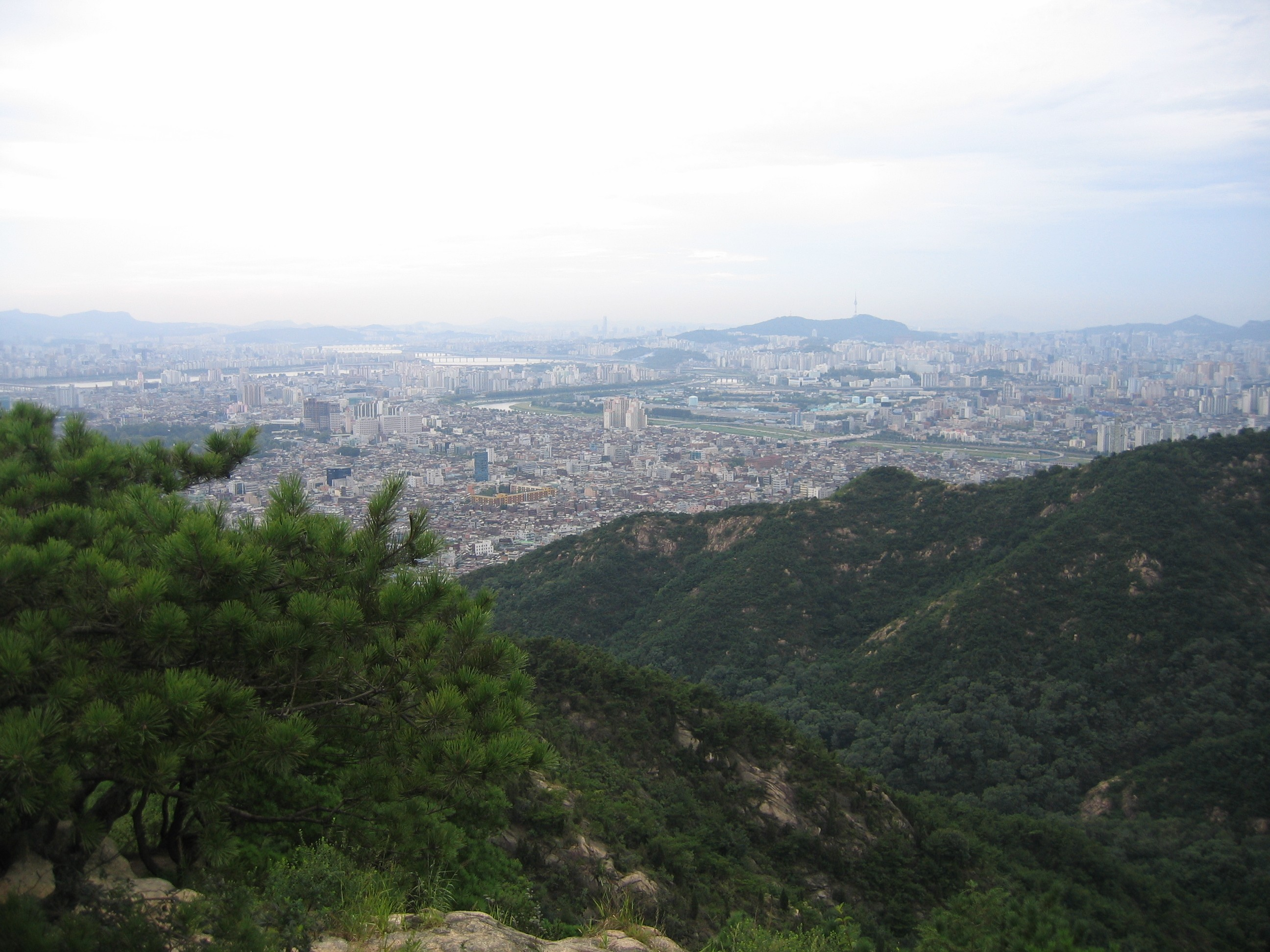 A view of Seoul from Mt. Acha (Achasan).